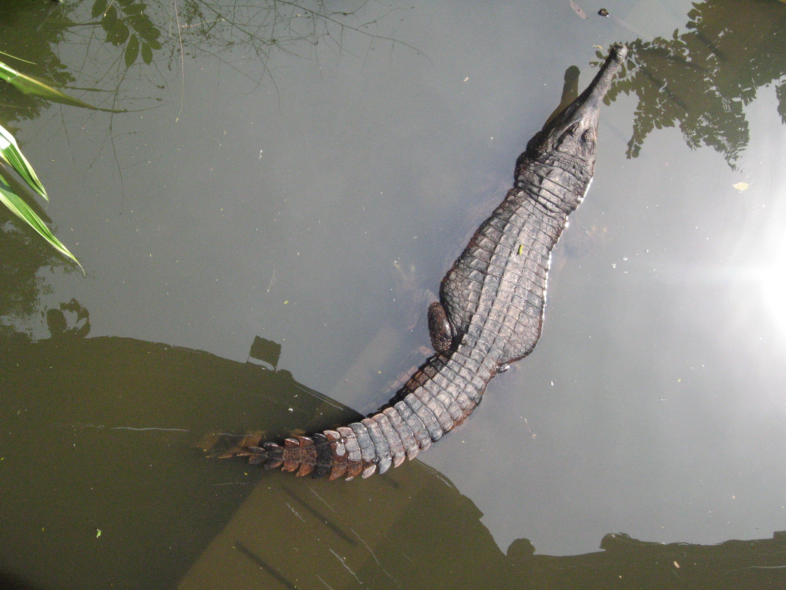 False Gharial at the Singapore Zoo. Taken by Terence Ong in November 2006.